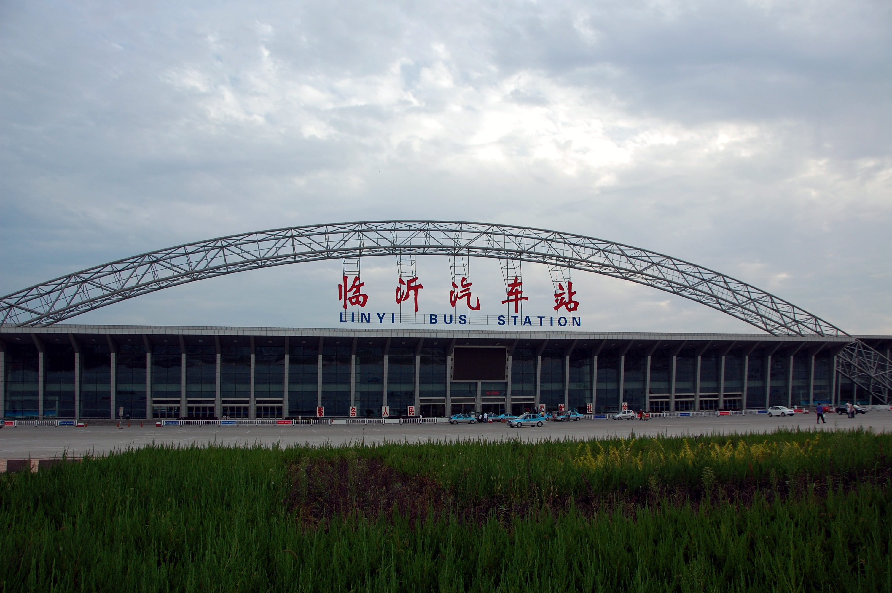 Linyi Bus Station